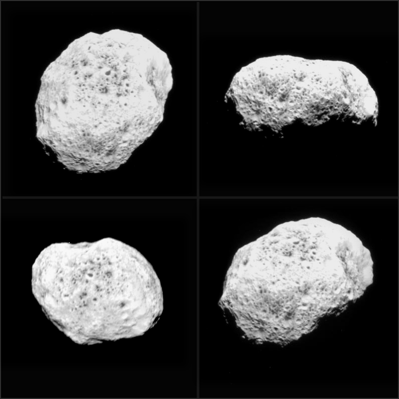 Saturn's small (165-mile- wide) Moon Hyperion, seen from four different angles. Courtesy NASA/JPL-Caltech